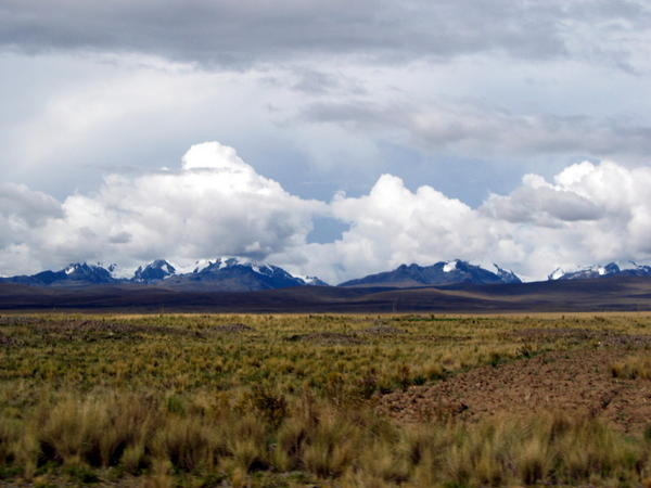 This image was taken on the road from Puno, Peru to La Paz, Bolivia in Bolivian territory at approximately 14,000 feet. The Altiplano is visible in the foreground with the peaks of the Cordillera Real in the background.